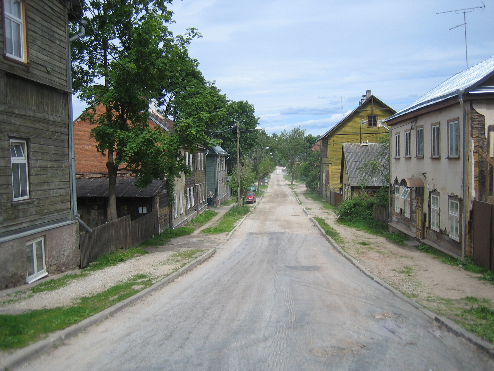 Tartu, Supilinn Quarter, Marja Str in summer